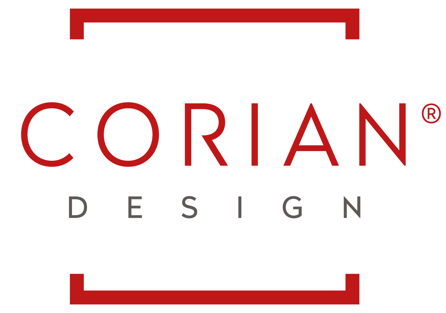 Corian Brand Logo 2017 by GBR Design